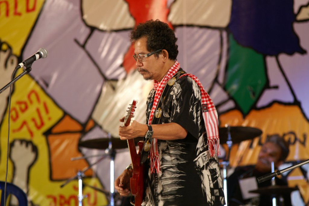 Folk band and former October 1976 activist Nga Caravan and his band on stage.